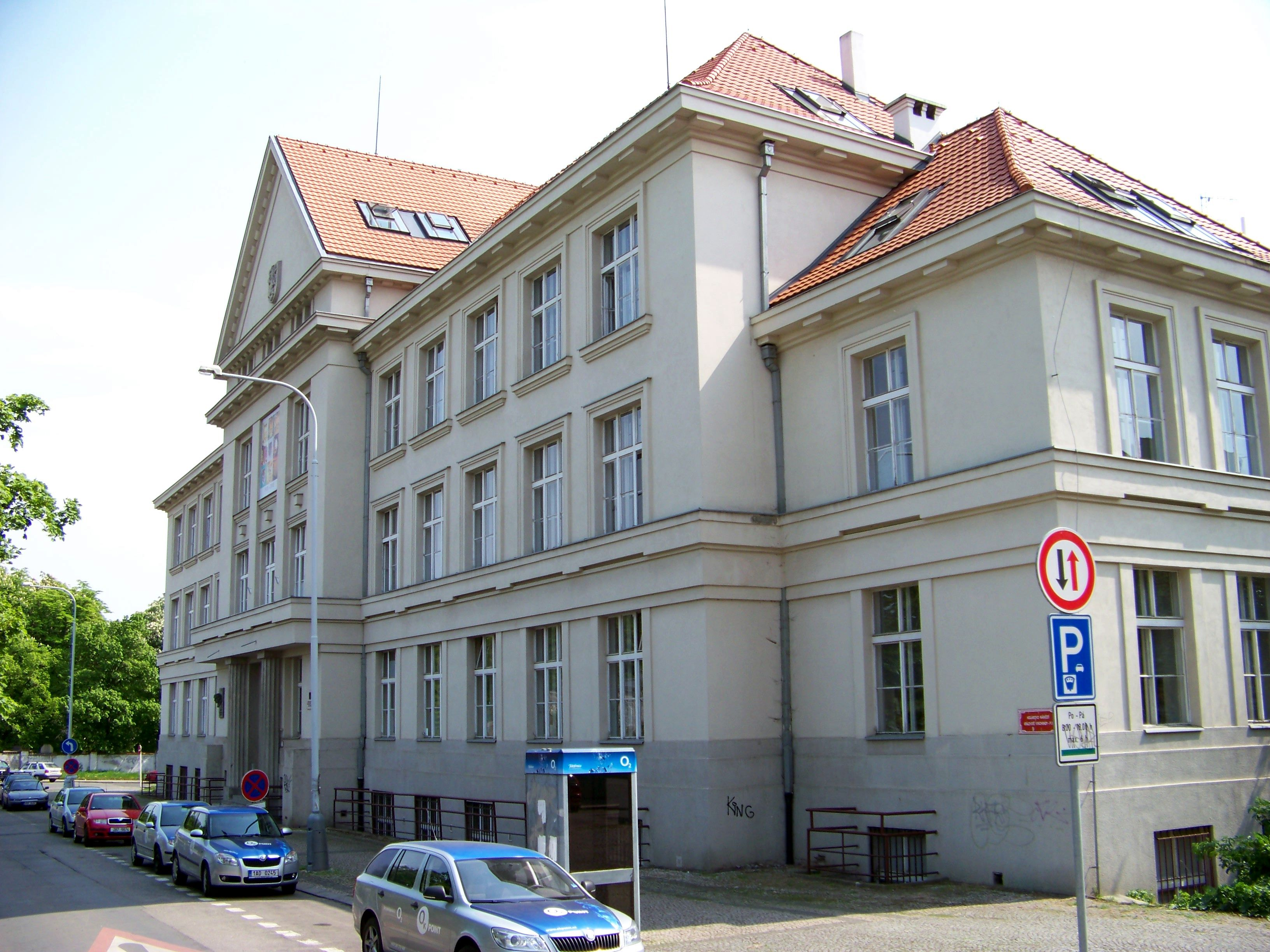 Prague-Vinohrady. Hollarovo Square, a secondary school of creative art. - Google Maps - Google Earth